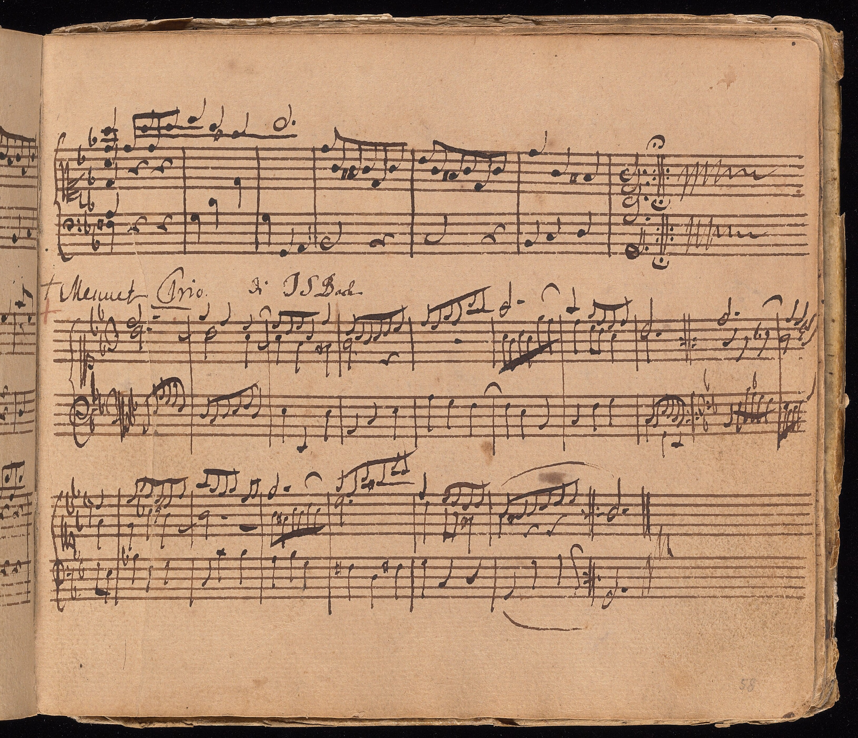 Page 58r of Klavierbüchlein für Wilhelm Friedemann Bach, which is the last page of No. 48, containing: end of No. 48d (Menuet of Stölzel's Partia) No. 48e (BWV 929)